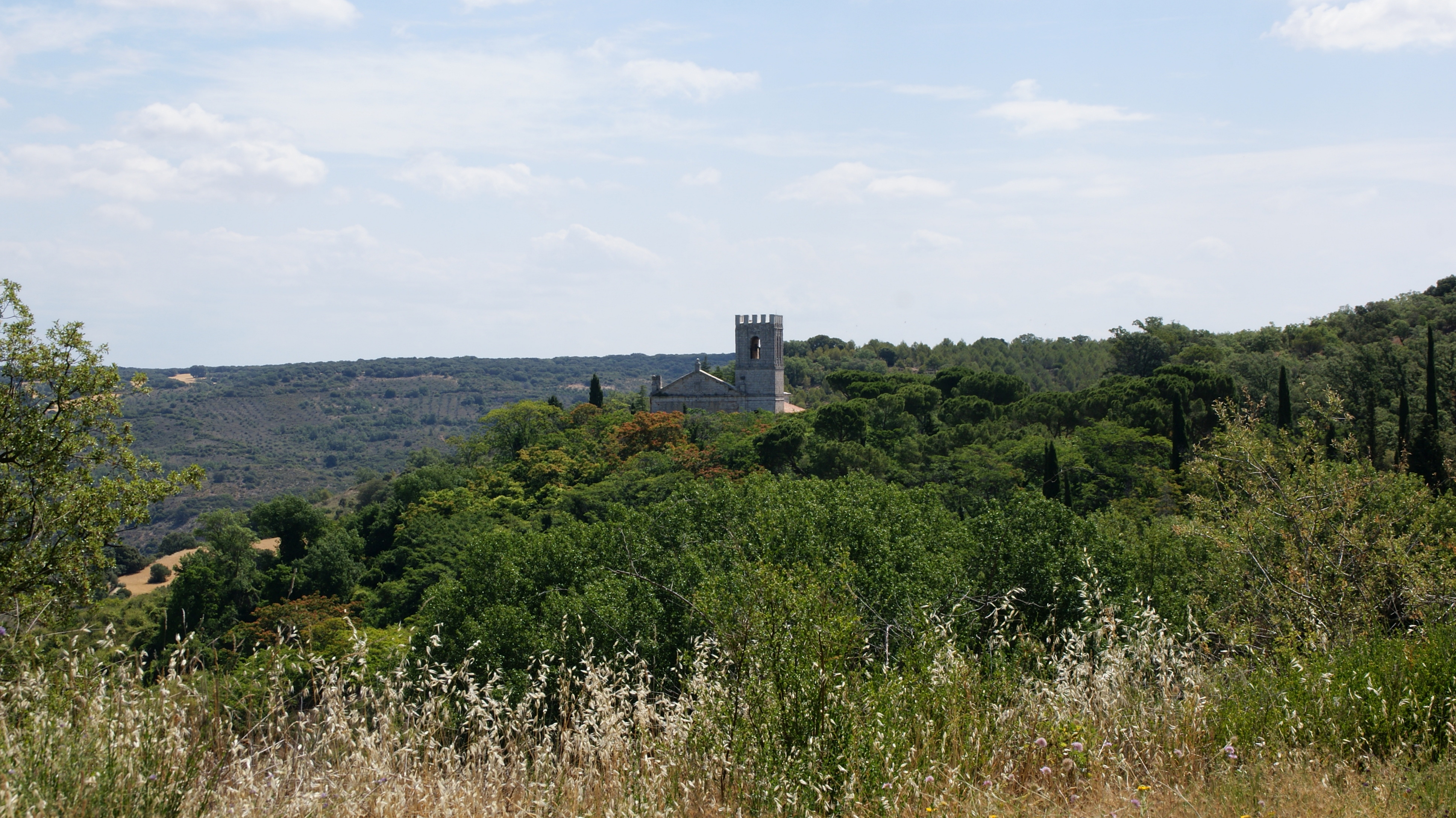 Monasterio de San Bartolomé, fue donde nació la Orden de San Jerónimo (O.S.H.). Edificado en 1474 sobre una ermita ya existente dedicada a San Bartolomé, que databa de 1330. Fue la casa madre de la Orden de San Jerónimo y fundado por Pedro Fernández Pecha y Fernando Yáñez de Figueroa. Lupiana, Guadalajara, Comunidad Autónoma de Castilla-La Mancha